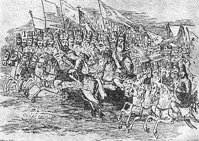 Serbian warriors on the Kosovo field, engraving by Gustav Morelli.